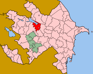 Map of Azerbaijan showing Yevlakh (Yevlax) rayon.